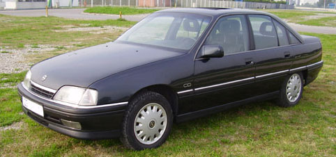 Opel Omega A by Branimir Brezic